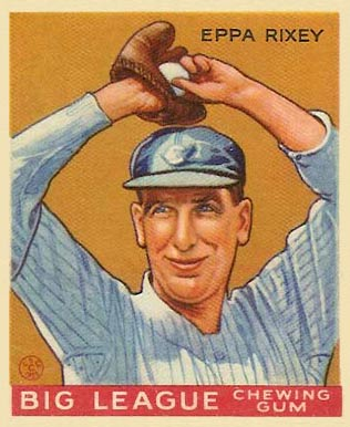 1933 Goudey baseball card of Eppa Rixey of the Cincinnati Reds #74. PD-not-renewed.